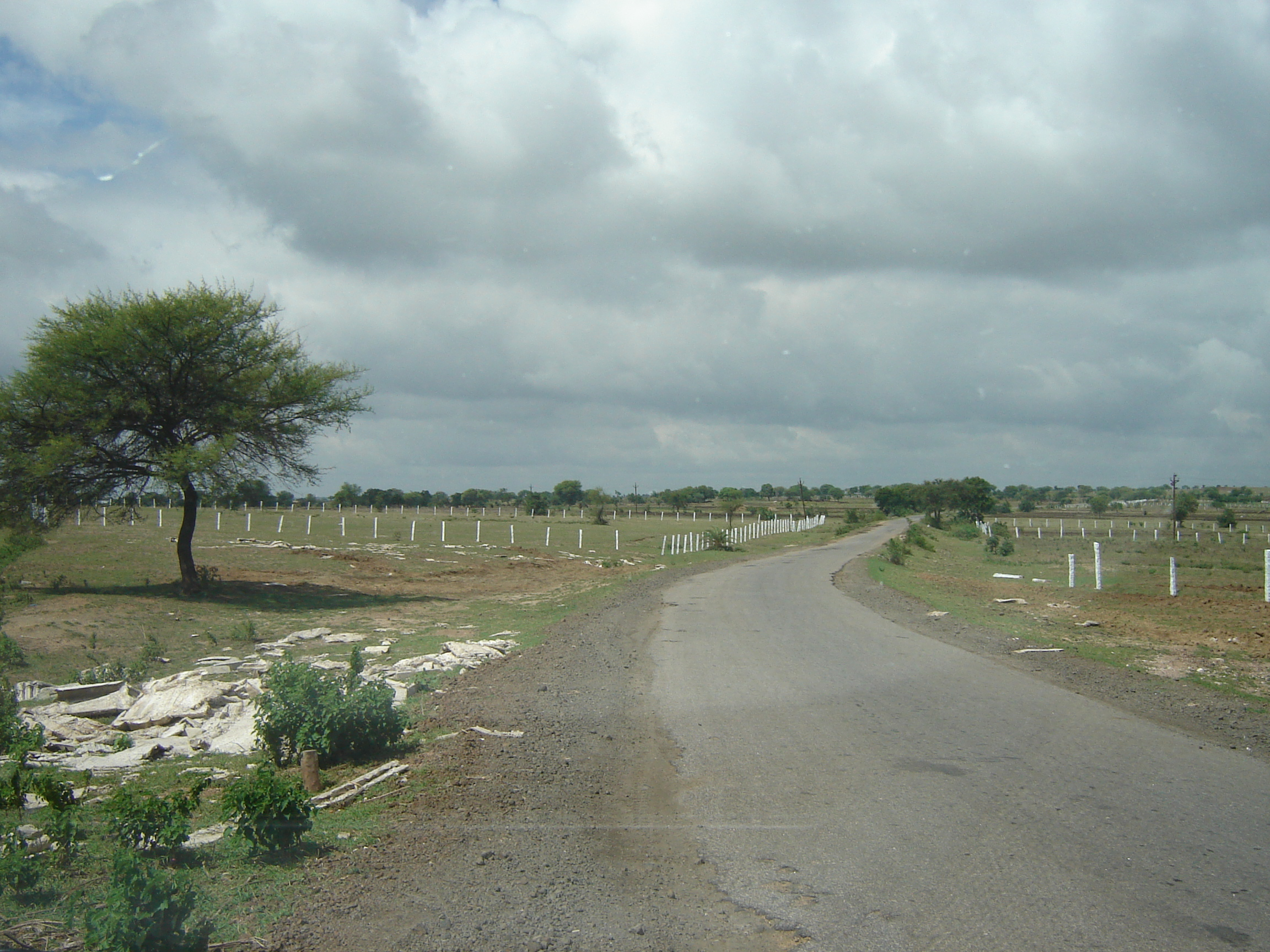 Rural Road near Vikarabad, Rangareddy district